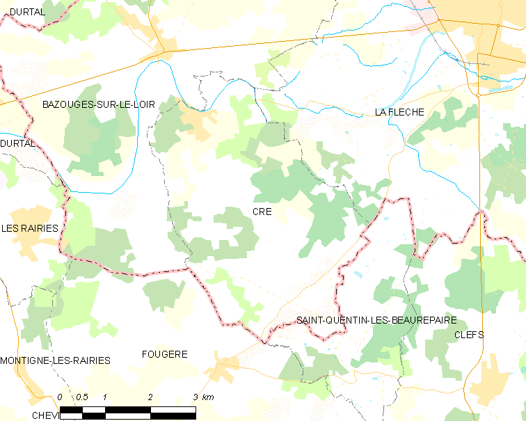 Map of French municipality